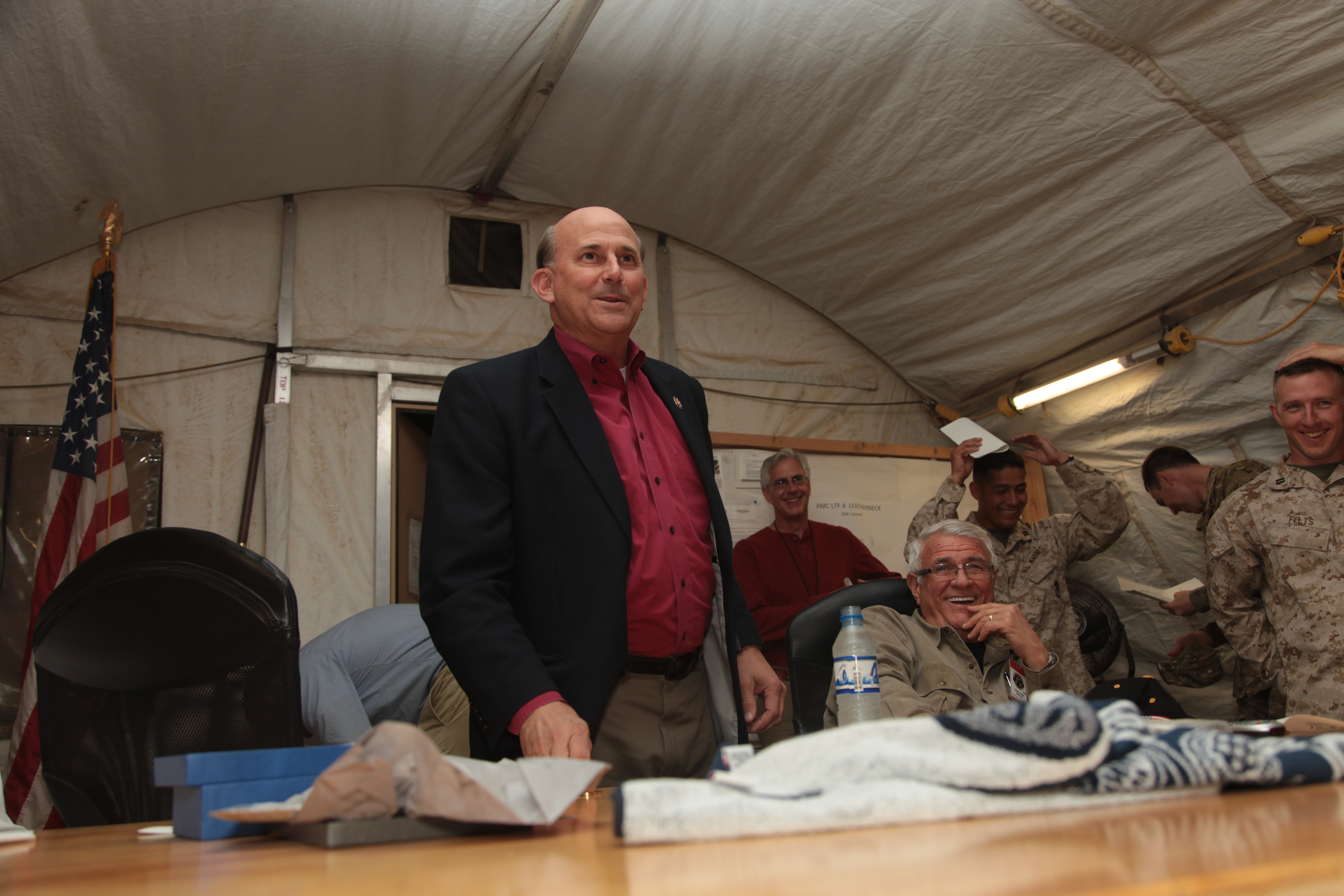 U.S. House Representative Louie Gohmert of Texas, speaks at a Texas A&M Muster aboard Camp Leatherneck in Helmand Province, Afghanistan, April 21, 2012. Aggies celebrate this tradition world wide to rekindle their college days. (U.S. Marine Corps photo by Lance Cpl. Catie D. Edwards/Reviewed)